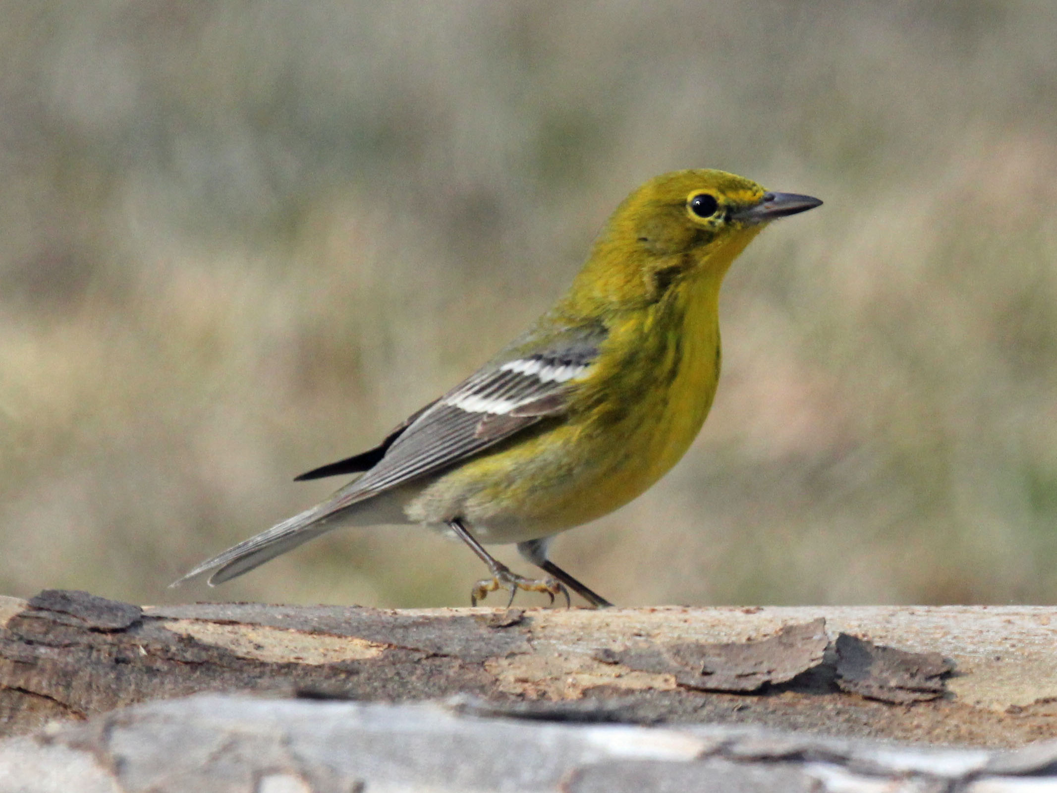 Pine Warbler (Setophaga pinus pinus) - Ash, North Carolina